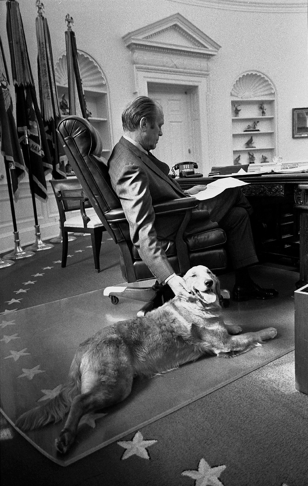 US President Gerald Ford and his golden retriever Liberty in the Oval Office, White House on November 7, 1974.